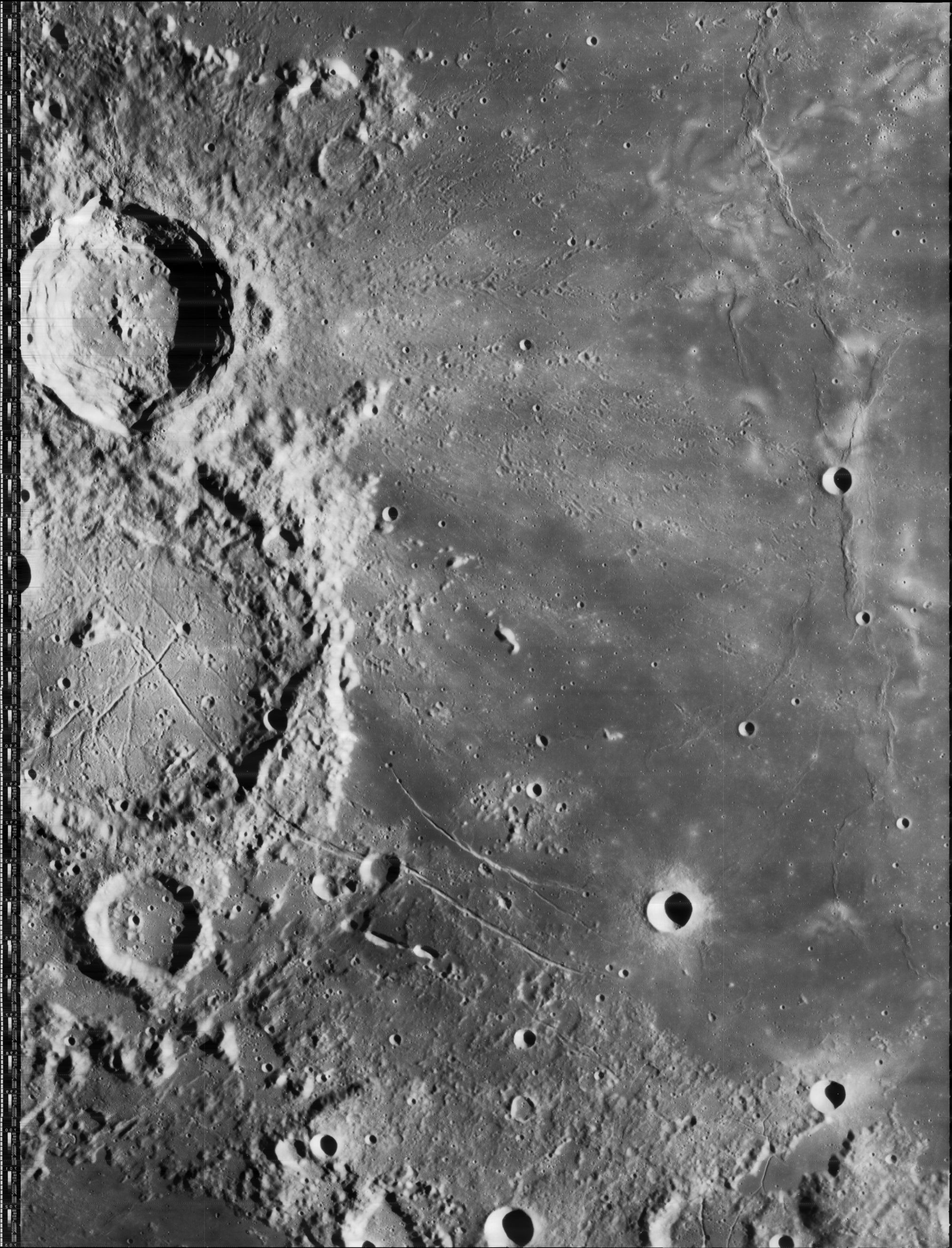 Planitia Descensus on Moon Surface. Photo iv 162 h1 from Digital Lunar Orbiter Photographic Atlas of the Moon.